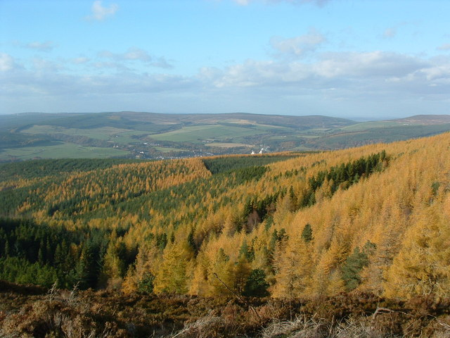 Where's the boundary? In places there is a sharp line between the Larches and the Firs. In other areas they are intermixed with a more pleasing effect. This view, with Rothes beyond, is what can be seen from the picnic spot on the Hammer bike trail on Ben Aigan.